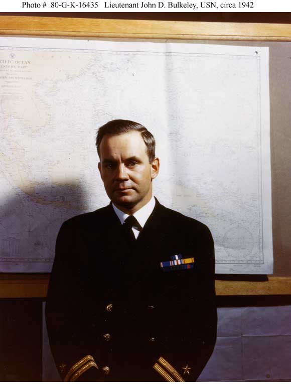 Lieutenant John D. Bulkeley, USN, standing in front of a map of the Pacific. Taken soon after his return to the United States from the Philippines.